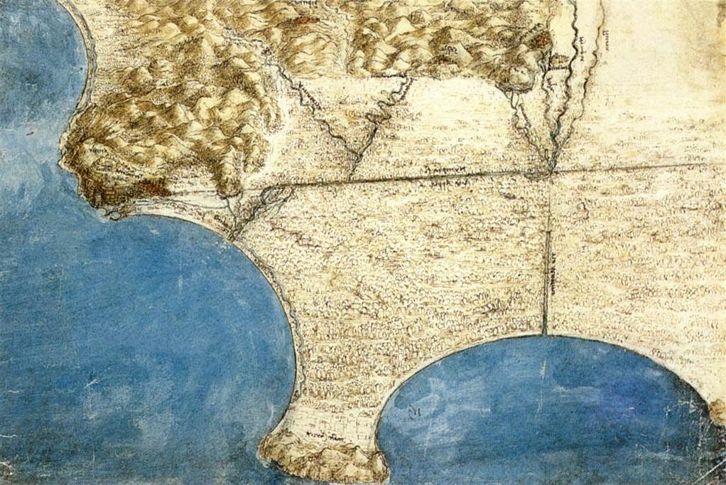 LEONARDO da Vinci Bird's-eye-view of sea coast Pen, ink, watercolour on paper, 272 x 400 mm Royal Library, Windsor